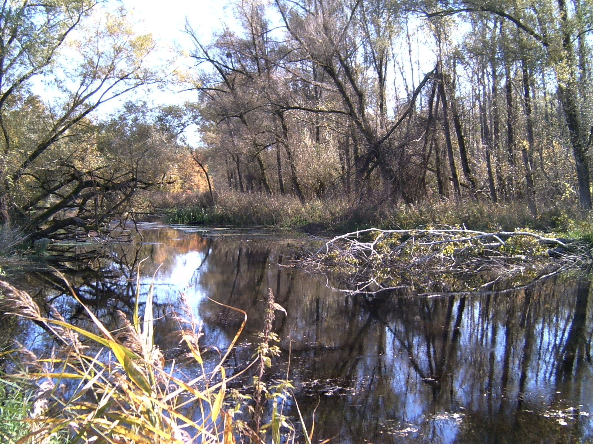 Alte Amper, a branch of the river Amper, near the village of Fahrenzhausen